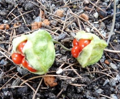 Bomarea edulis, Botanical Garden Basel.